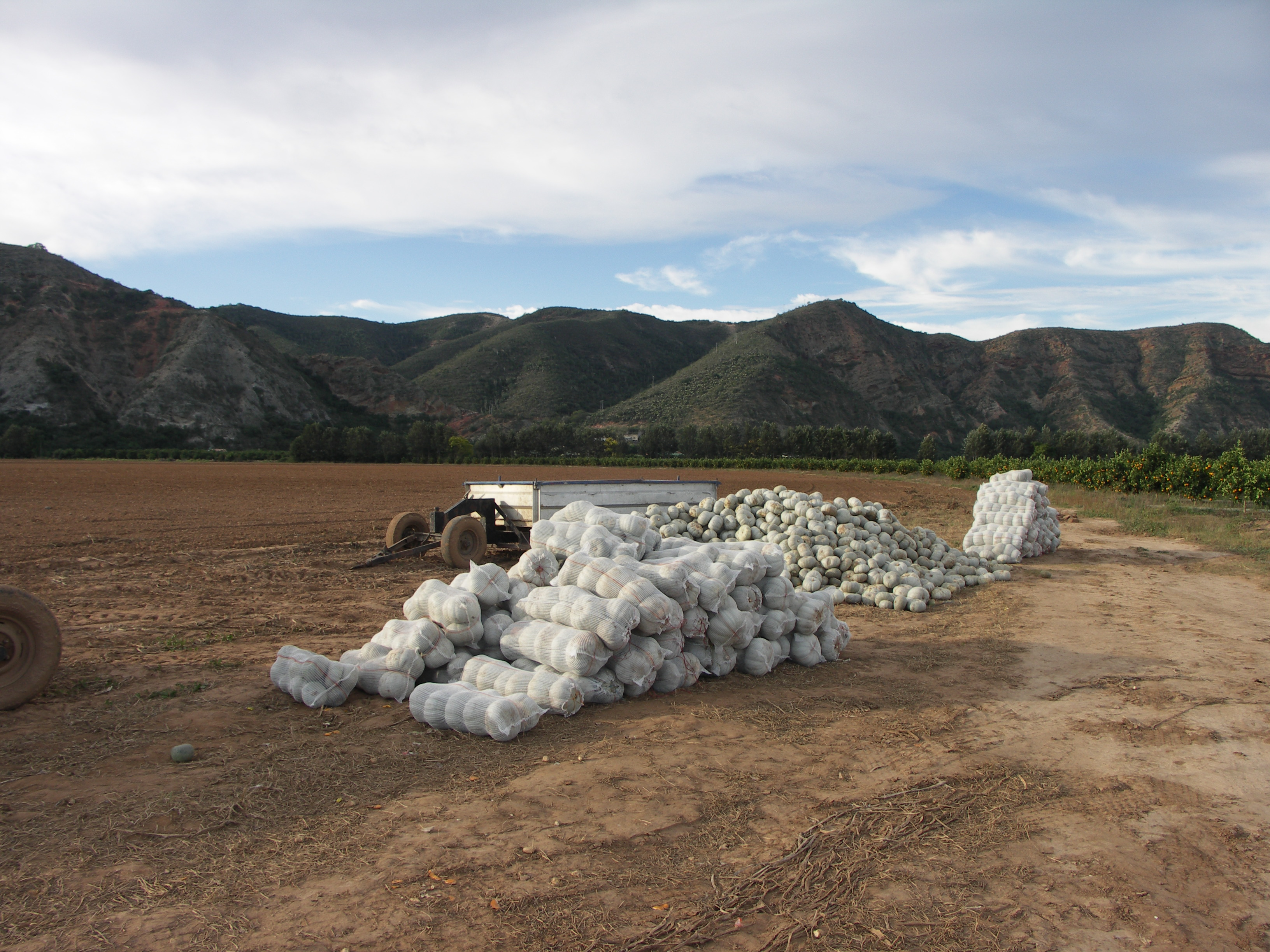 A pumpkin harvest in the Eastern Cape, South Africa